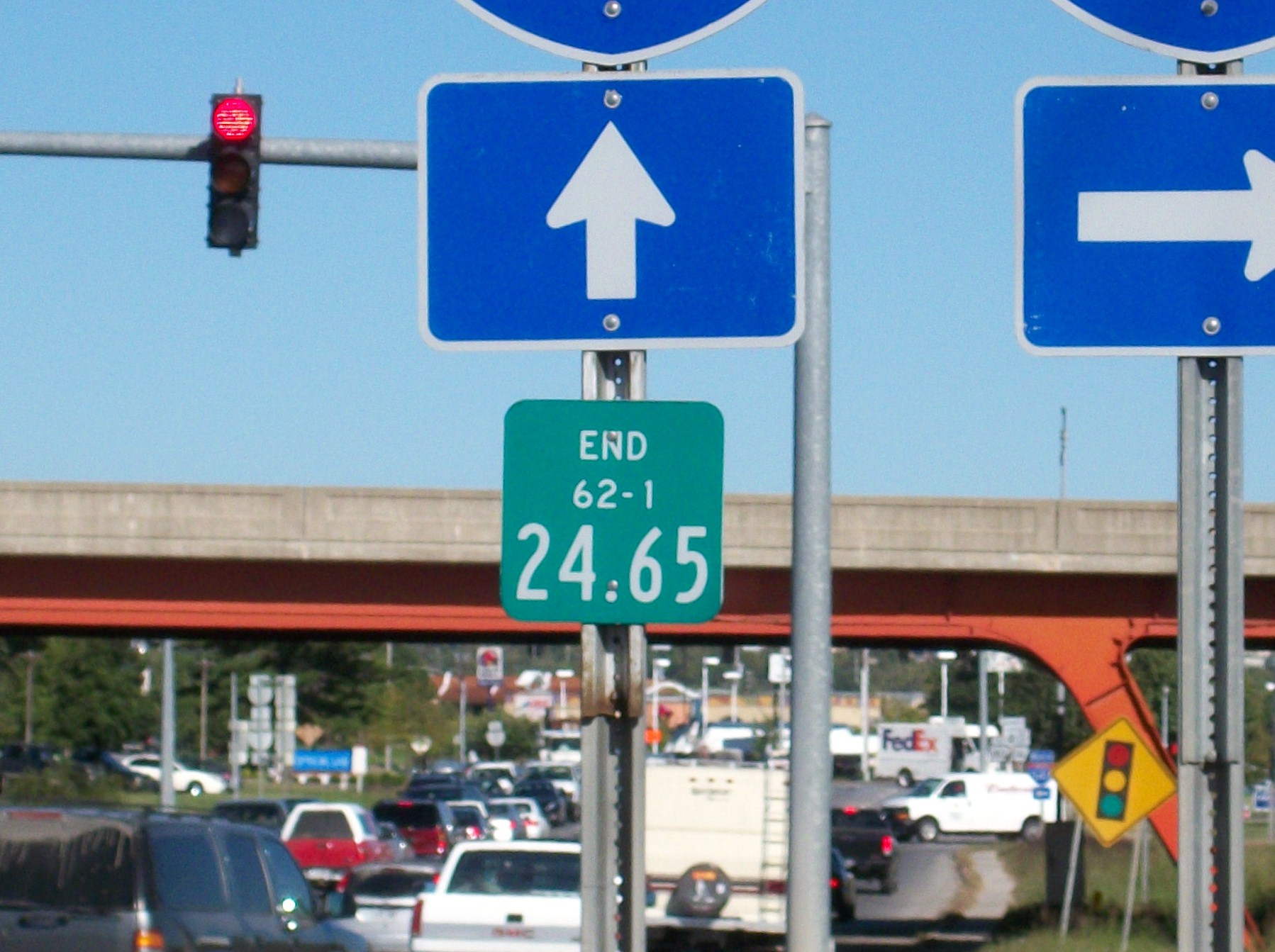 This little sign in Fayetteville, AR indicates the end of U.S. Route 62, section 1. The route travels 24.65 miles from the Oklahoma state line and terminates at Shiloh Drive, which is the off ramp of I-540 southbound. U.S. 62 segment two begins in Benton County at I-540 exit 86. The route has 21 separate sections in the state.